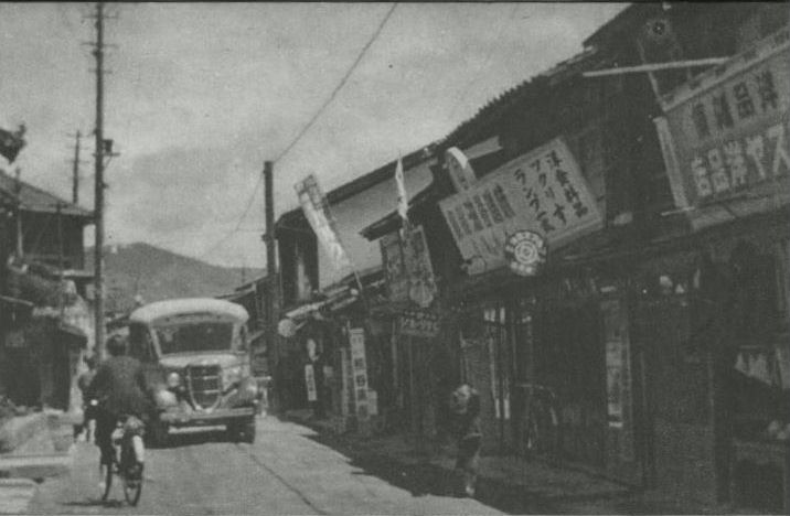 Street of Komaba. Auchi (Achi), Nagano prefecture, Japan.